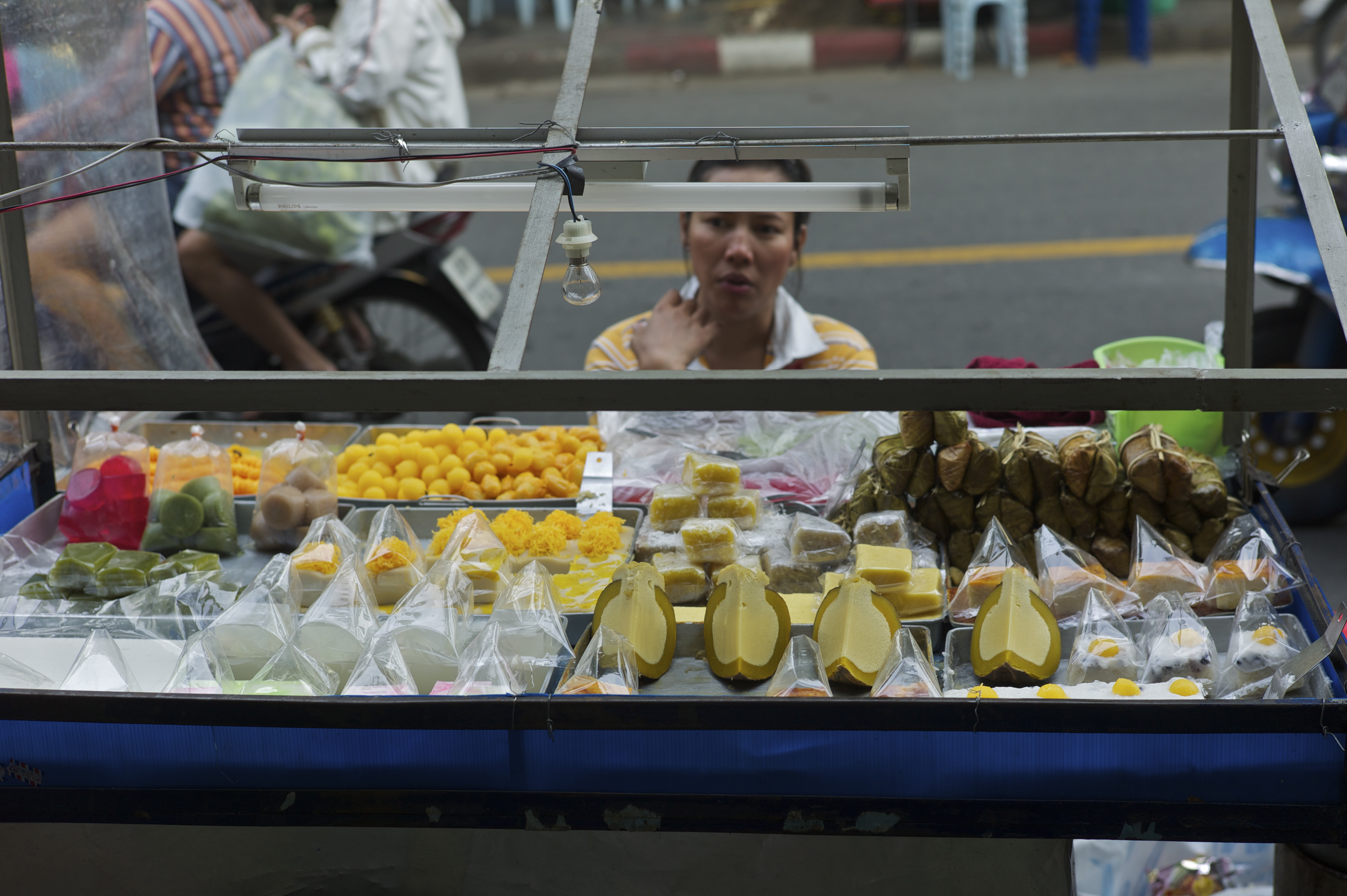 A street vendor selling Thai sweets in Bangkok